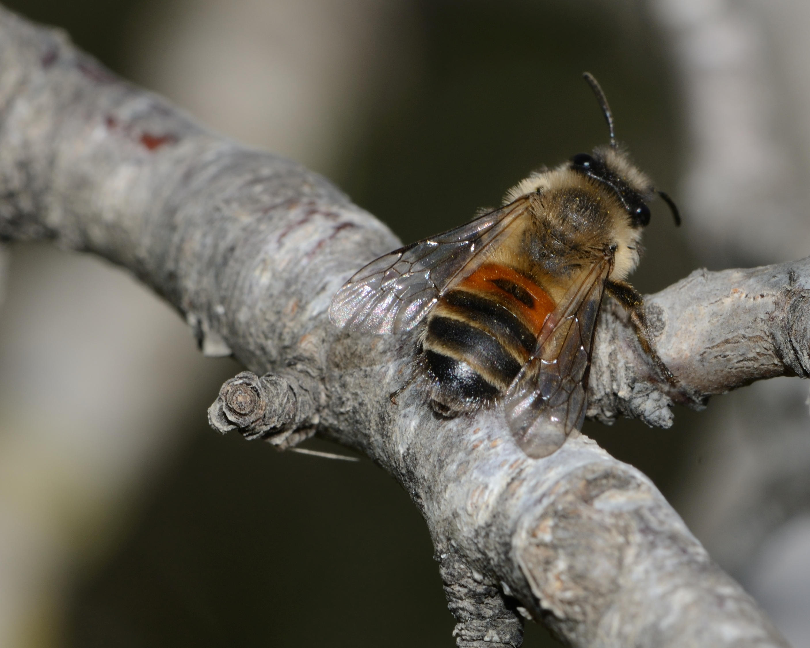 Andrena (Melandrena) elmaria Gusenleitner 1998, female standing on an almond branch, Nahshon, Judean Foothills, Israel, February 9, 2012.